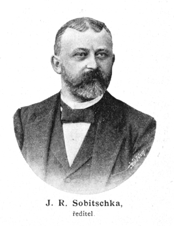 Portrait of Josef Richard Sobitschka (1854-1940), Czech entrepreneur and politician. The picture is cropped from a gallery of directors and commissioners of Zemská Banka království Českého (State Bank of the Czech Kingdom); out of the 17 pictures on that page, 15 were taken by Jan Nepomuk Langhans (1851-1928) and one each by Moritz Adler (1849-1920) and Moritz Ludwig Winter (1824-1899) [1] but it is not clear who took this particular one. The photo is also watermarked by printmaker Jan Vilím (1856-1923)